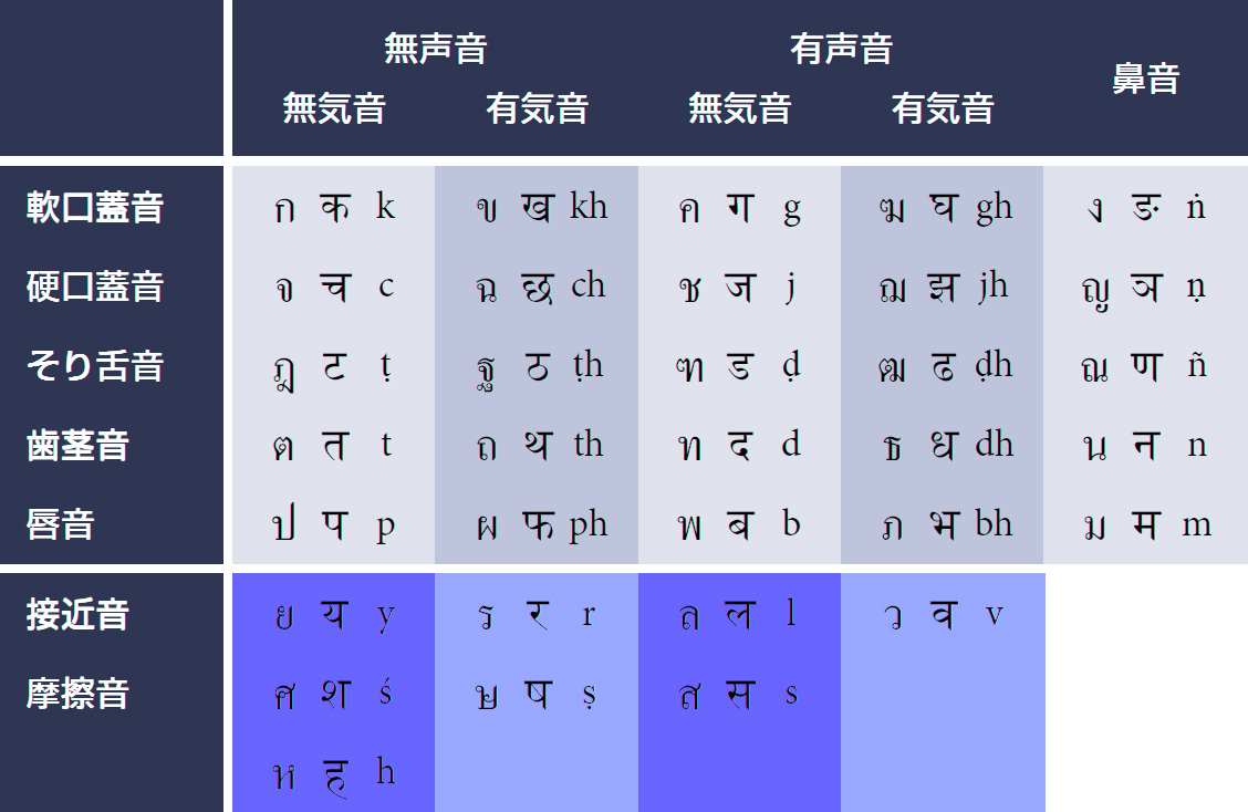 Relatonship between Thai script and Sanskrit